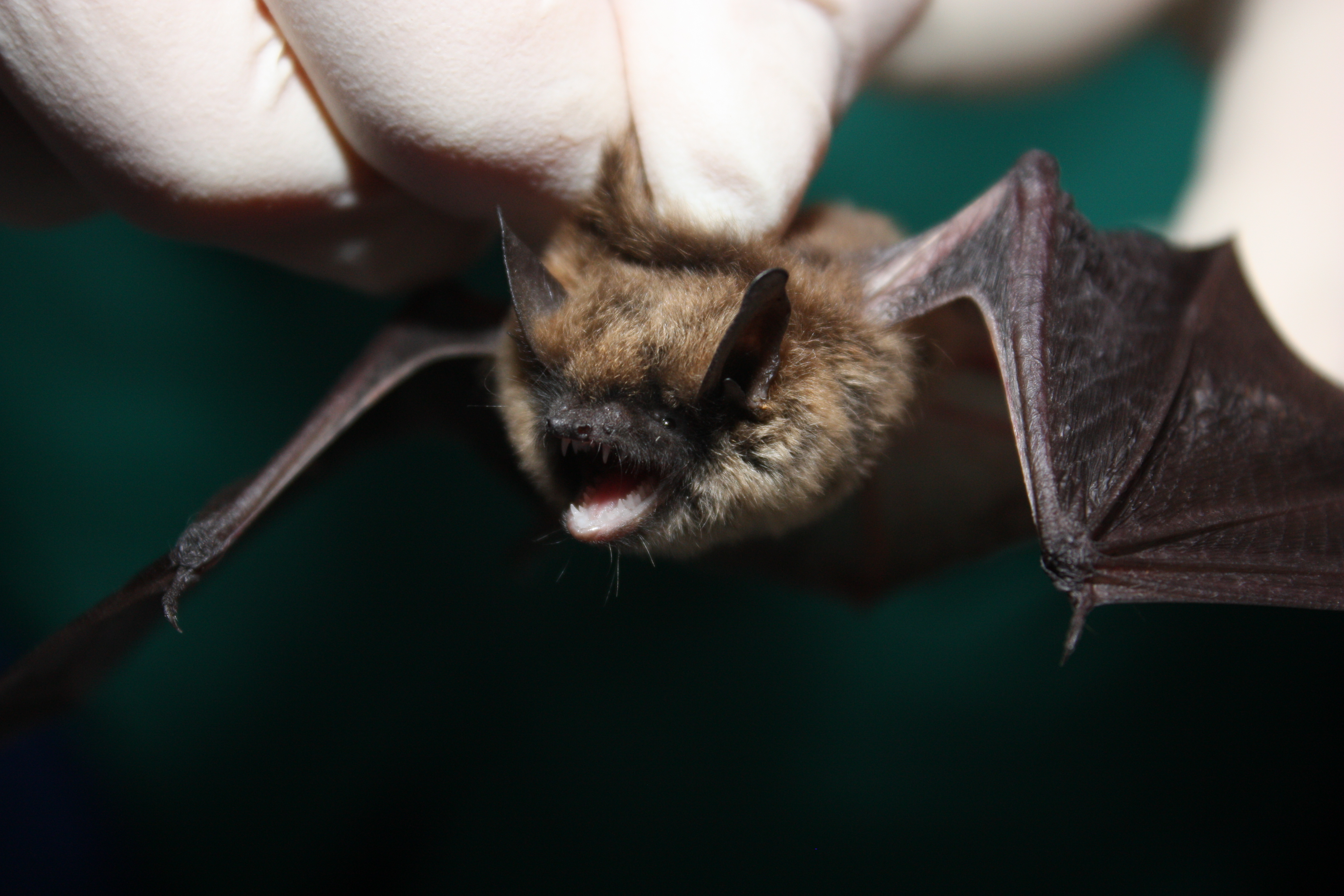 Myotis leibii, Eastern Small-footed bat. Credit: Gary Peeples/USFWS